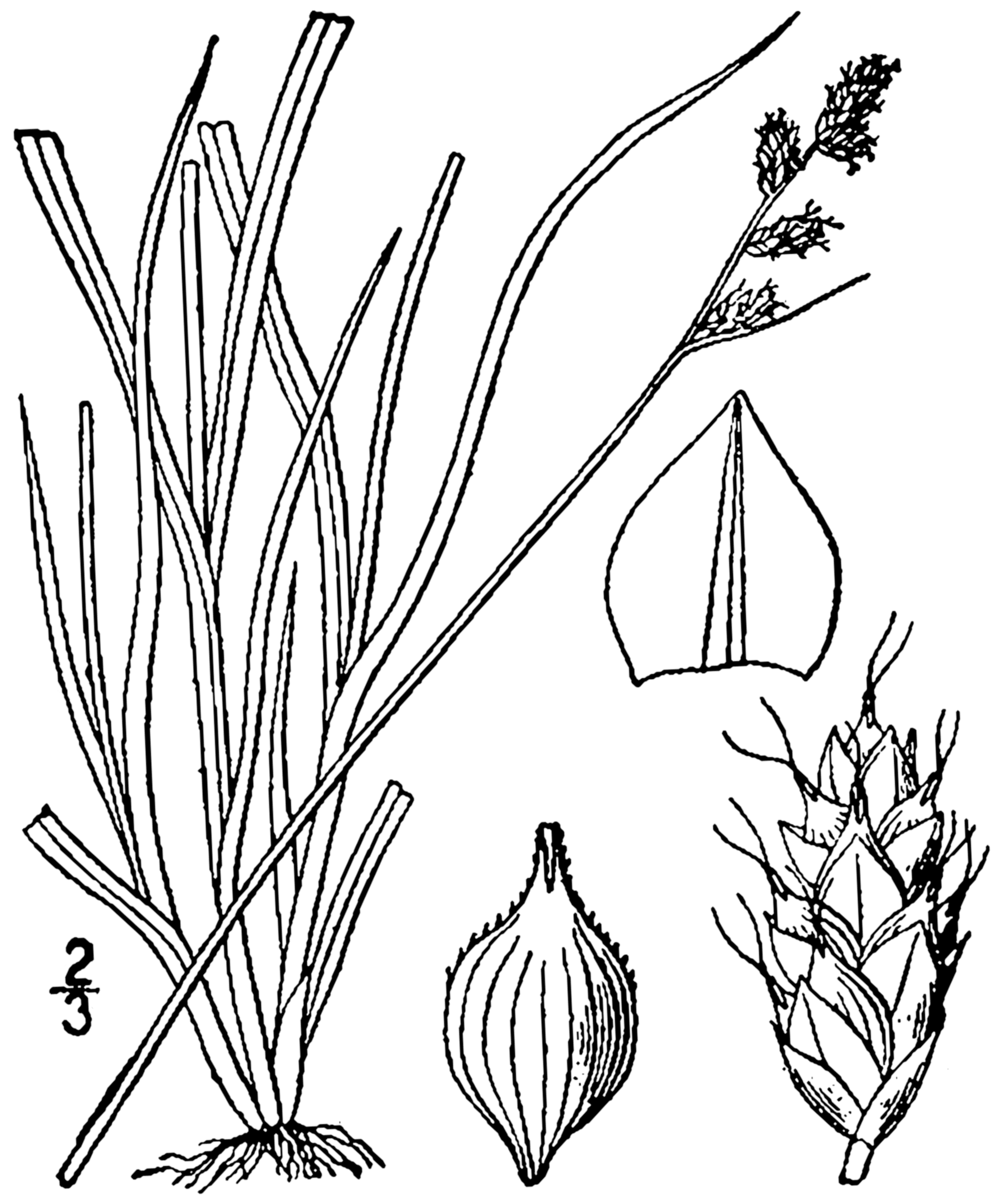 Carex brunnescens (Pers.) Poir. (brownish sedge)